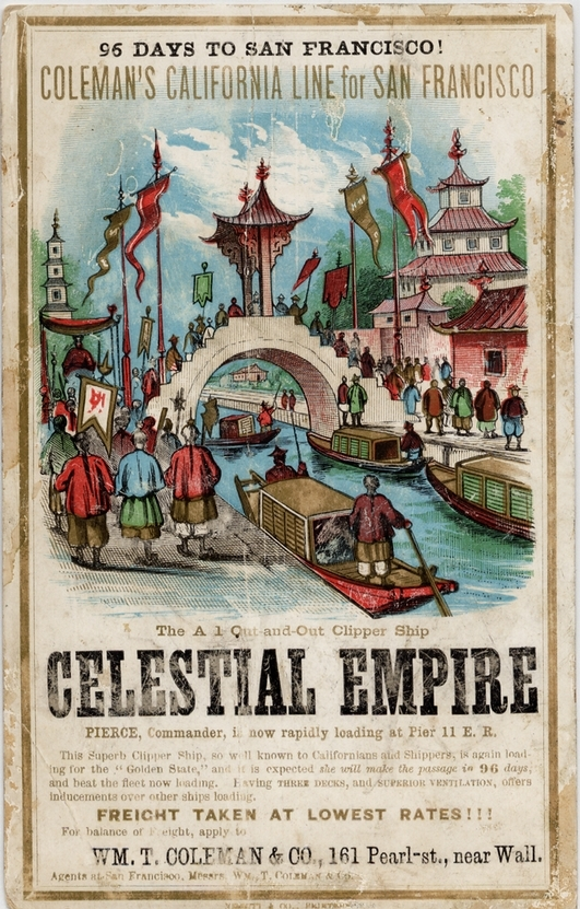 Sailing card for the clipper ship Celestial Empire.